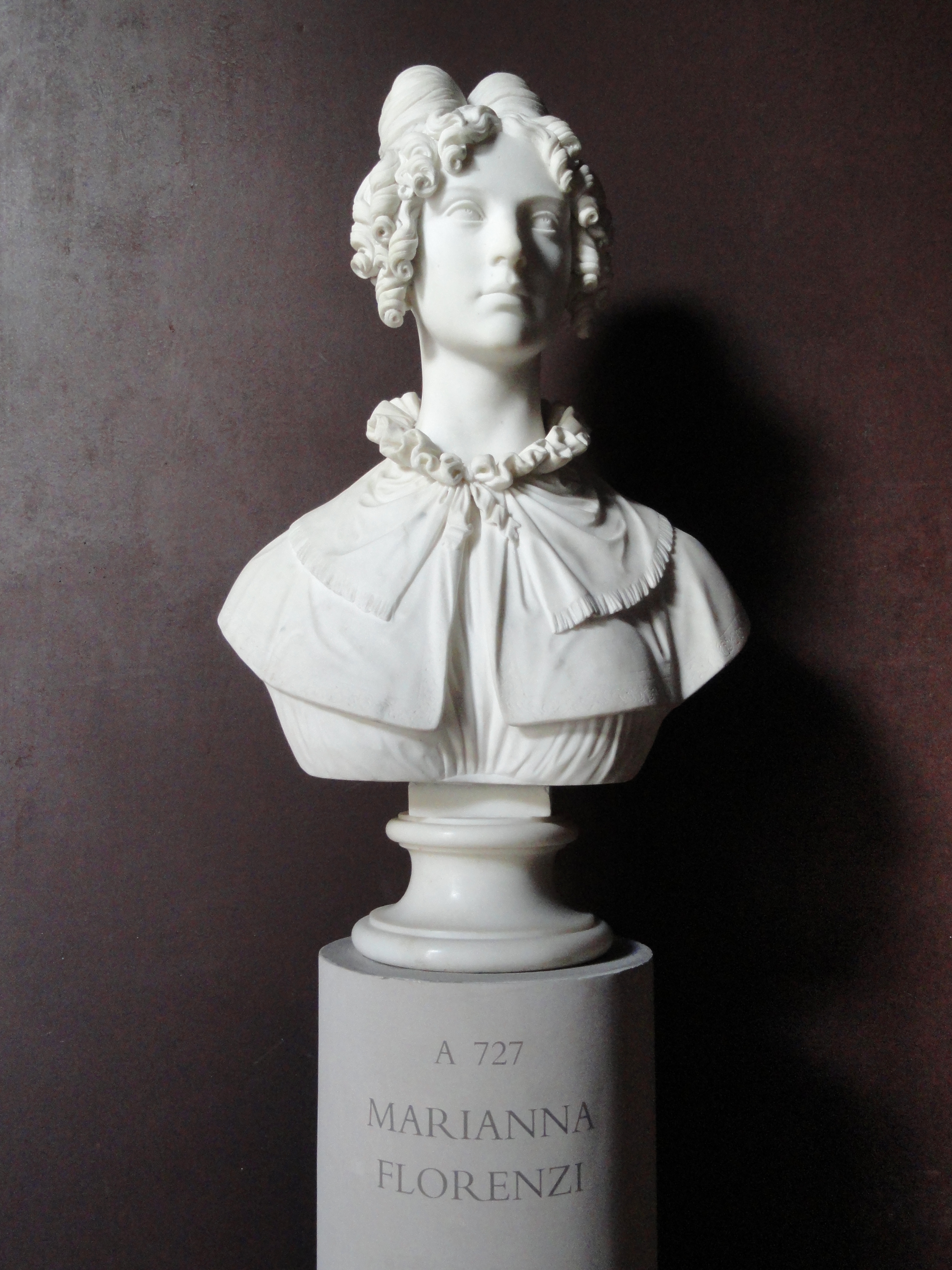 Sculpture in Thorvaldsens Museum, Copenhagen, Denmark. Sculptor: Bertel Thorvaldsen (c. 1770-1844). This artwork is now in the public domain because the artist died more than 70 years ago.